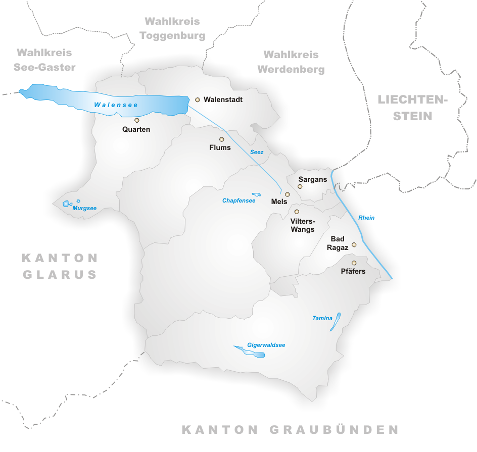 Municipalities of District Sarganserland